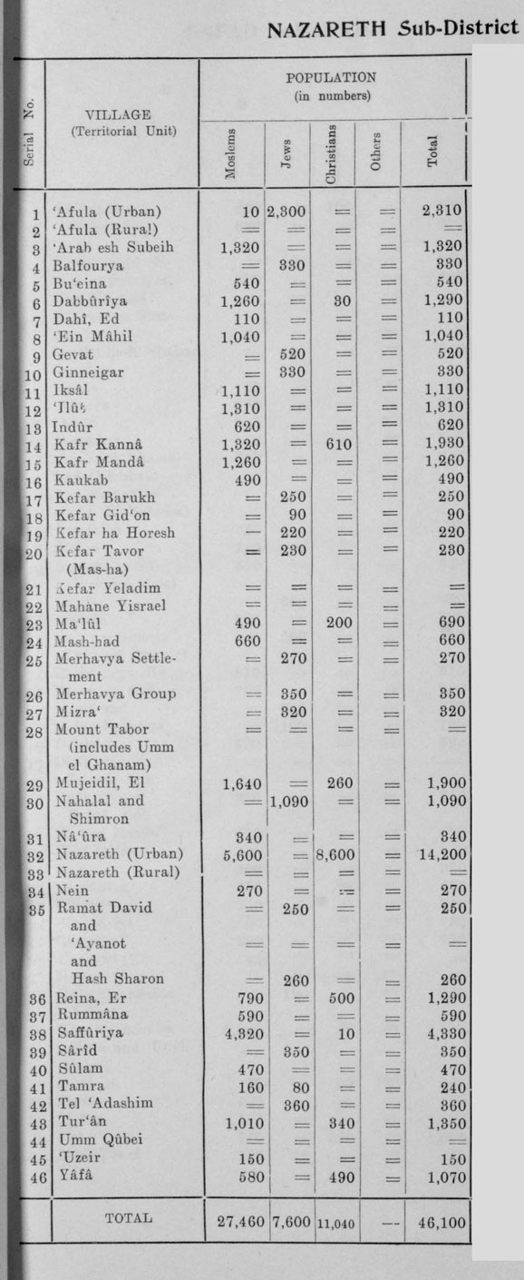 1945 Palestine Mandate Village Statistics